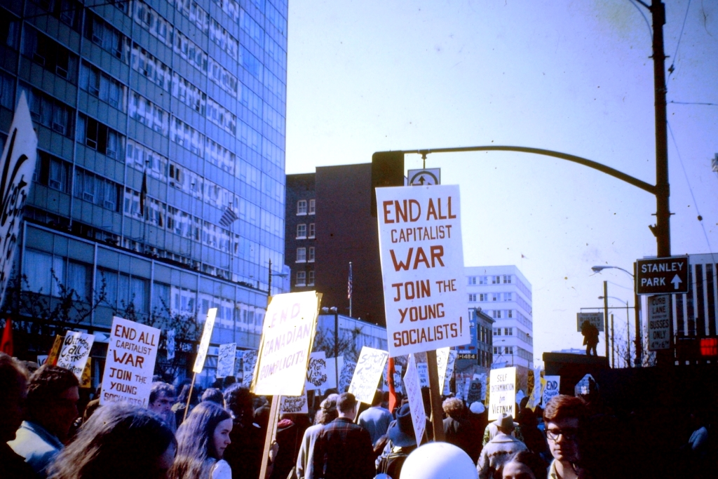 I took this photo in Vancouver, B.C, Canada in 1968